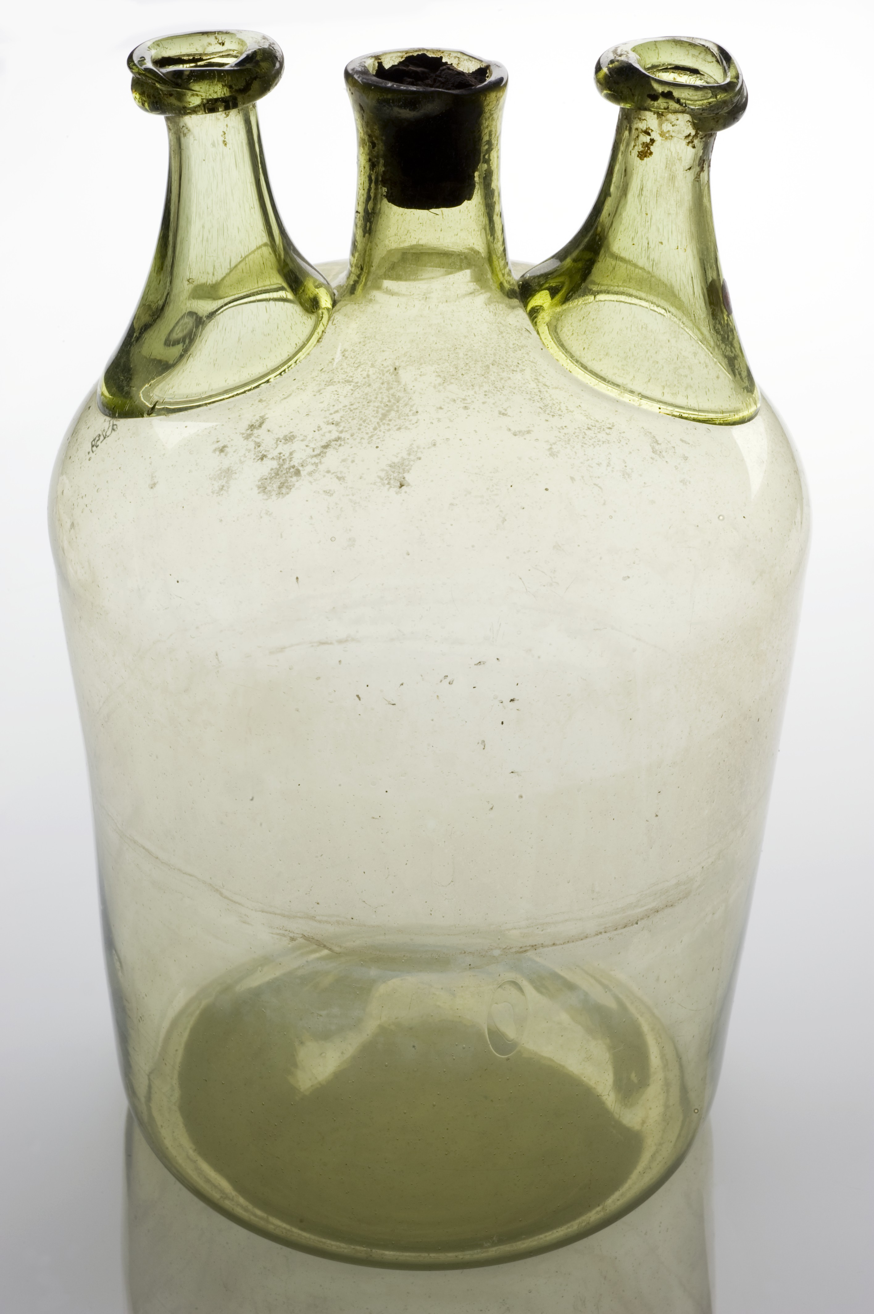 A Woulfe bottle is used during chemical analysis to pass gases through a liquid and is named after Peter Woulfe (1727?-1803), an English chemist – although he may have based his design on an existing piece of glassware. These iconic glass bottles can have two or three necks which are used in series and would be connected with tubes. maker: Unknown maker Place made: Europe Wellcome Images Keywords: Chemistry; woulfe bottle